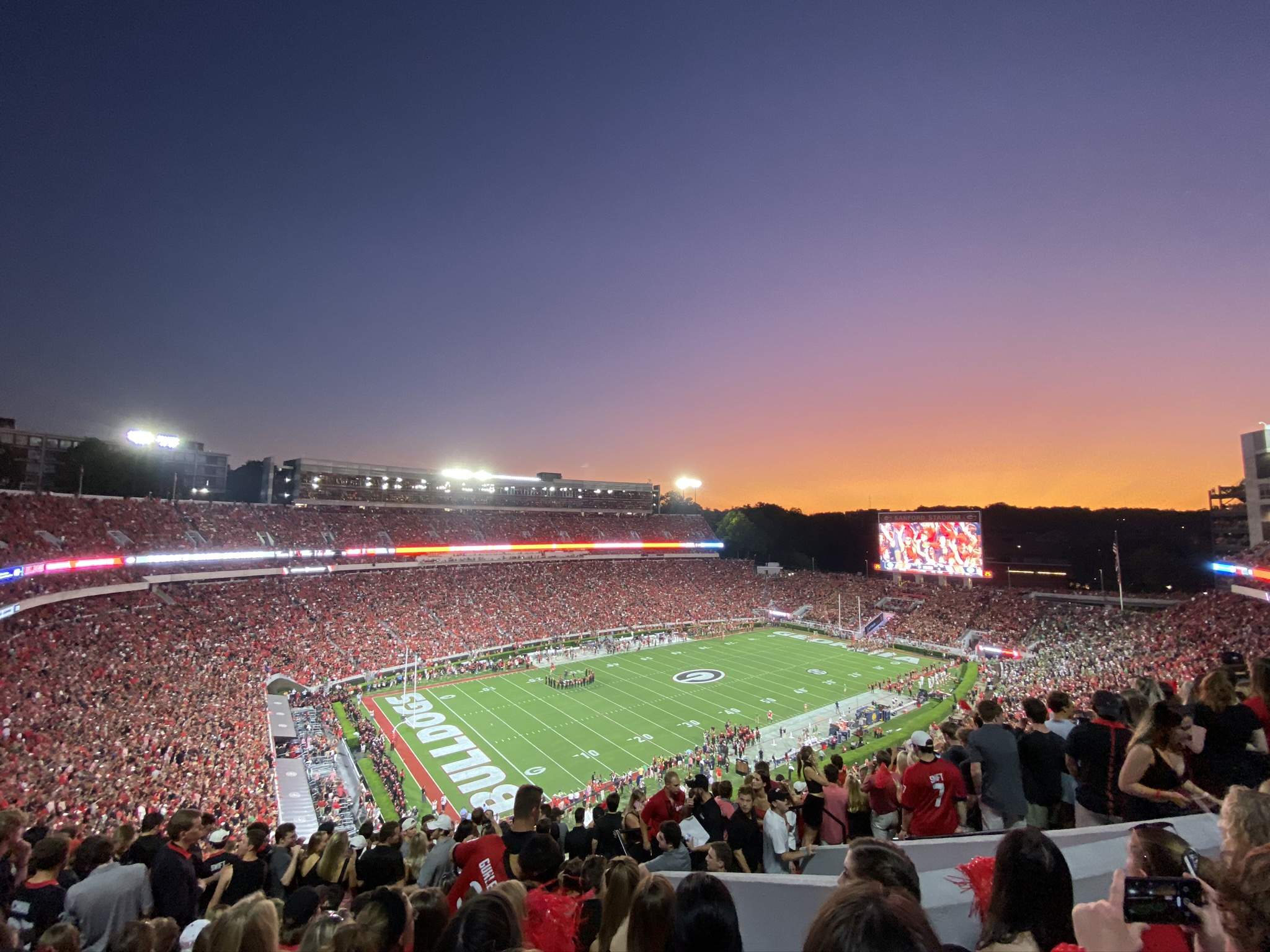 An image from the Dawgs win against Notre Dame, taken at night.